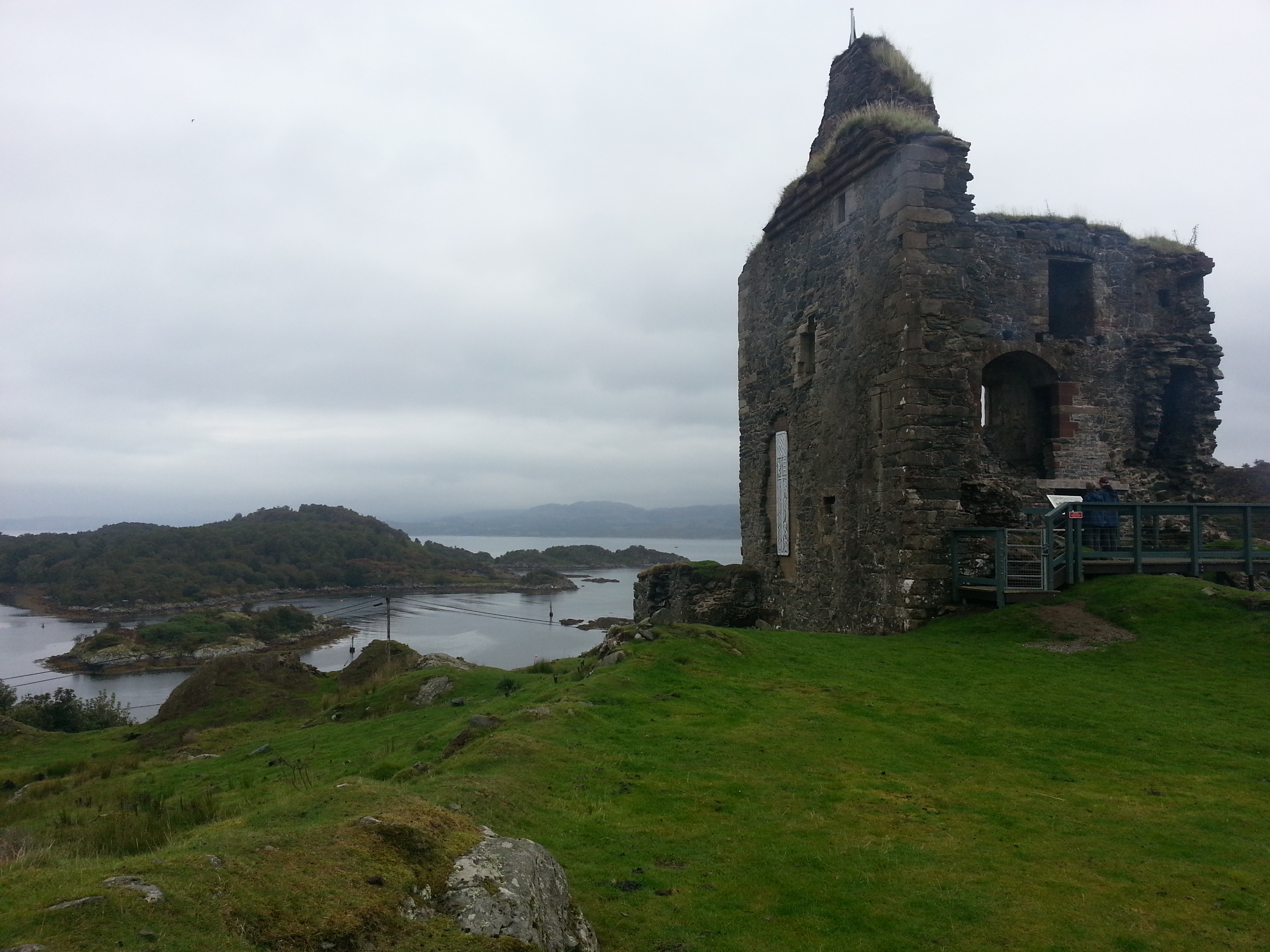 Tarbert Castle, Argyll and Bute, Scotland.